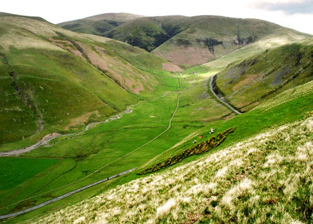 Dalveen Pass from Capel Hill in the Durisdeer Hills with Lowther Hills beyond.